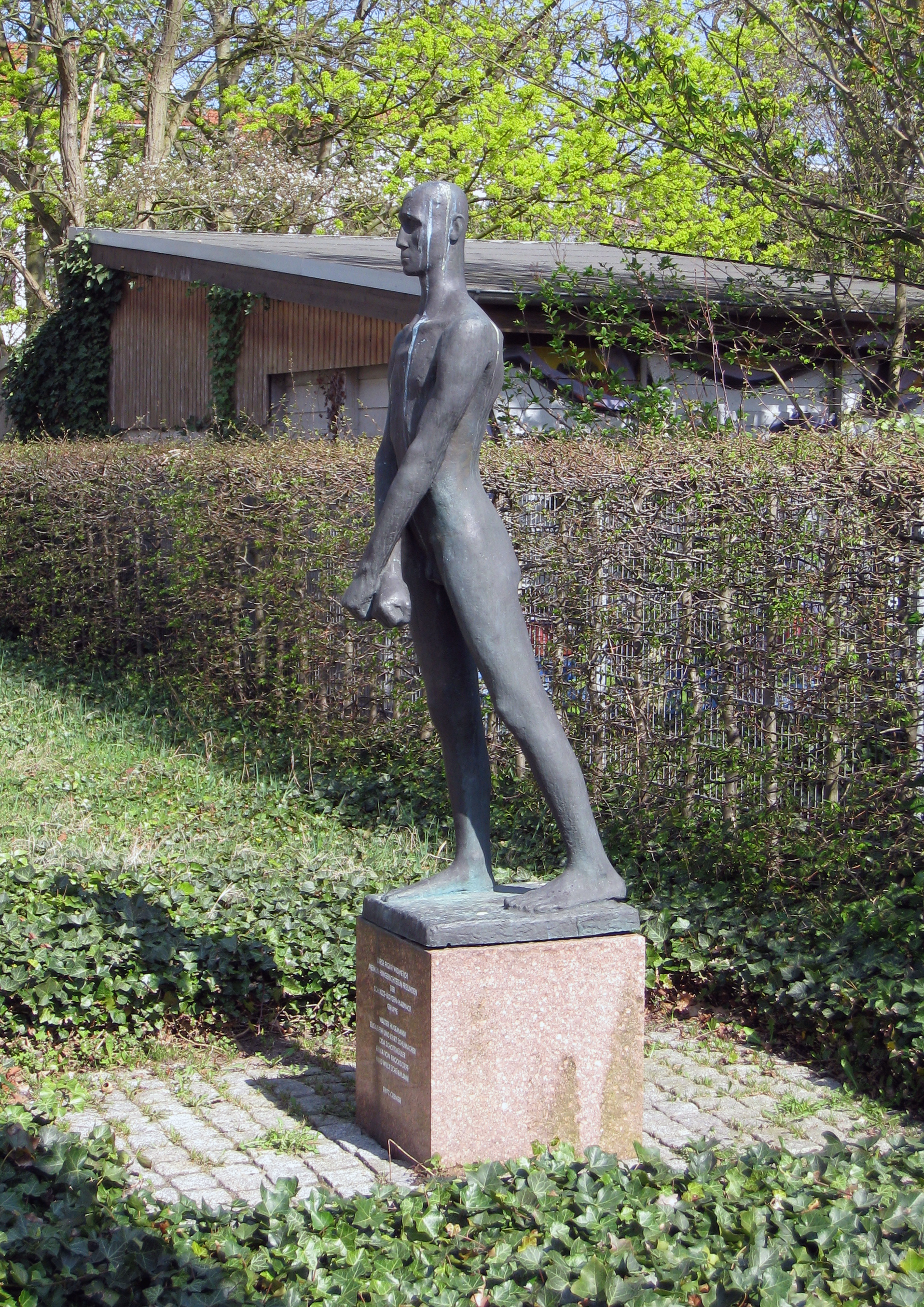 Freiheitskämpfer (“Freedom fighter”), bronze sculpture by Fritz Cremer (1906–1993), placed 1983 next to the Ostertorwache (today Wilhelm-Wagenfeld-Haus) in Bremer, Germany.